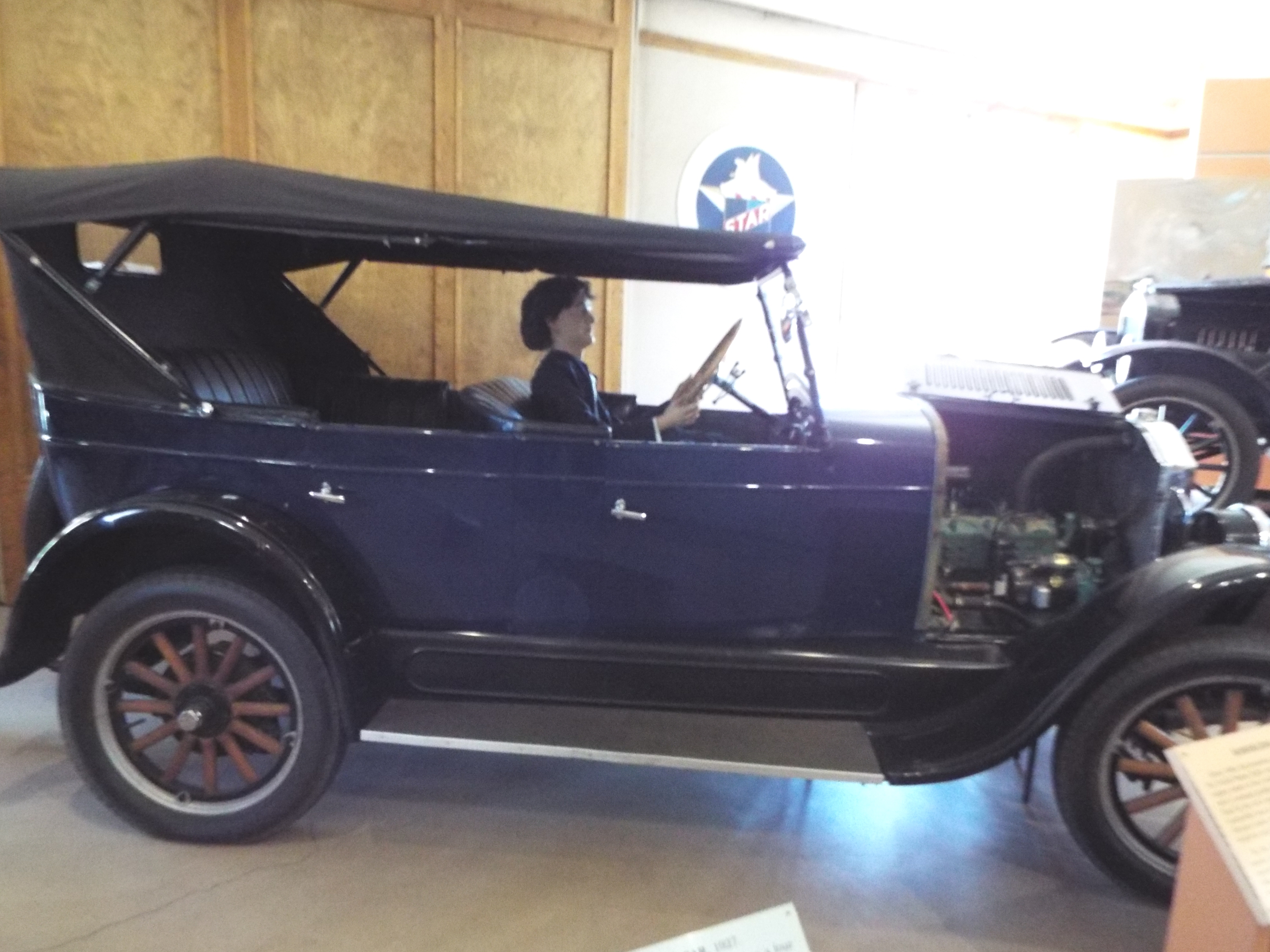 Sharlot Hall' s 1927 Durant Star Touring Caron on exhibit in the Transportation Building in the Sharlot Hall Museum in Prescott, Az